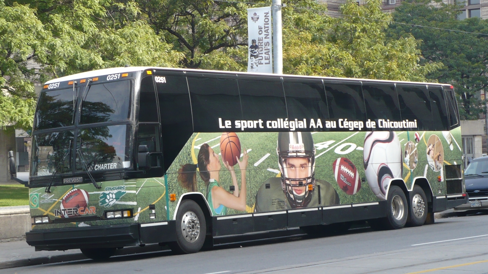 INTERCAR wrapped coach advertising the sports programs of the Cégep de Chicoutmi. Coach manufactured by Prevost Car, a unit of Volvo Bus Corporation.